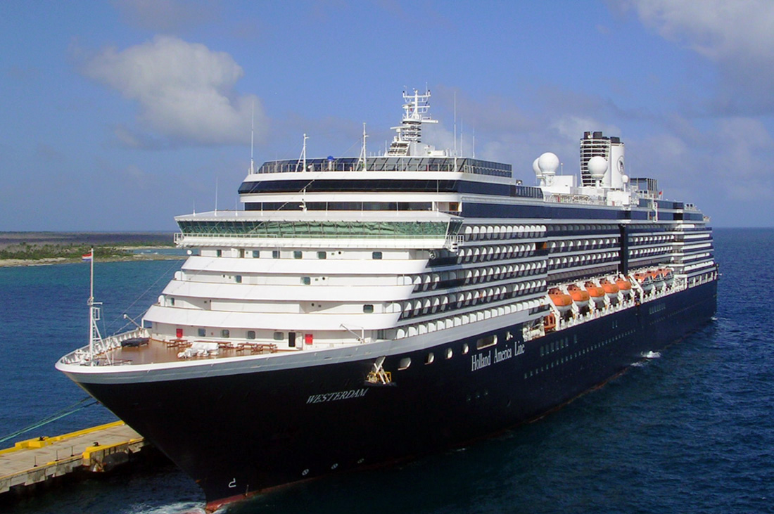 Westerdam is a Holland America Line cruise ship, carrying 1,900 passengers and a crew of 800. It was built in 2004. The ship is 934 ft (285 m) long, has 11 passenger decks, and is rated aat 82,500 tons. It is in the same class as Zuiderdam, which we took on a Panama Canal cruise in 2008. This view shows where I watched the Zuiderdam's progress through the Panama Canal. I started on deck 4, the brown area at the top of the hull. The area was full, and I had to stand on a chair to see anything. I saw people on the decks above. After the ship went through the first lock, I went to deck 7, just below the bridge (the green stripe.